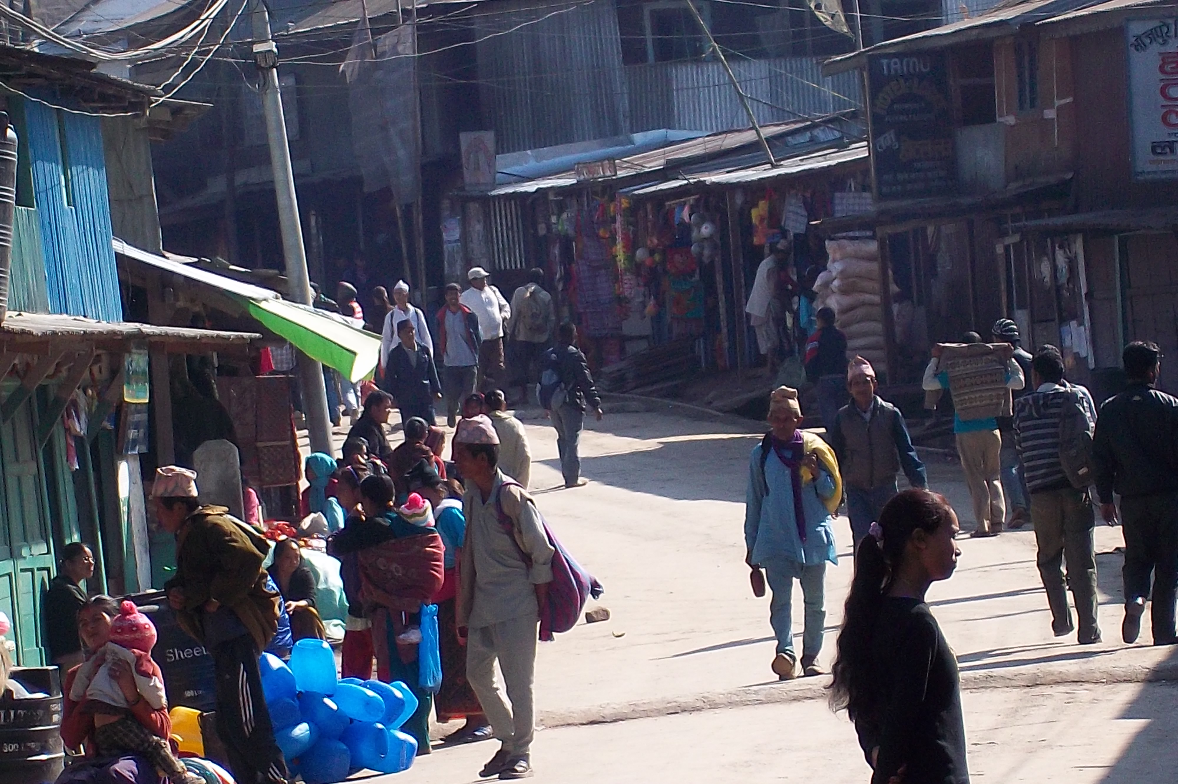 This town situated, situated about 2 kilometres west from ARSP, Pakhribas has become a business centre after the construction of the Narad Mani Thulung Highway.